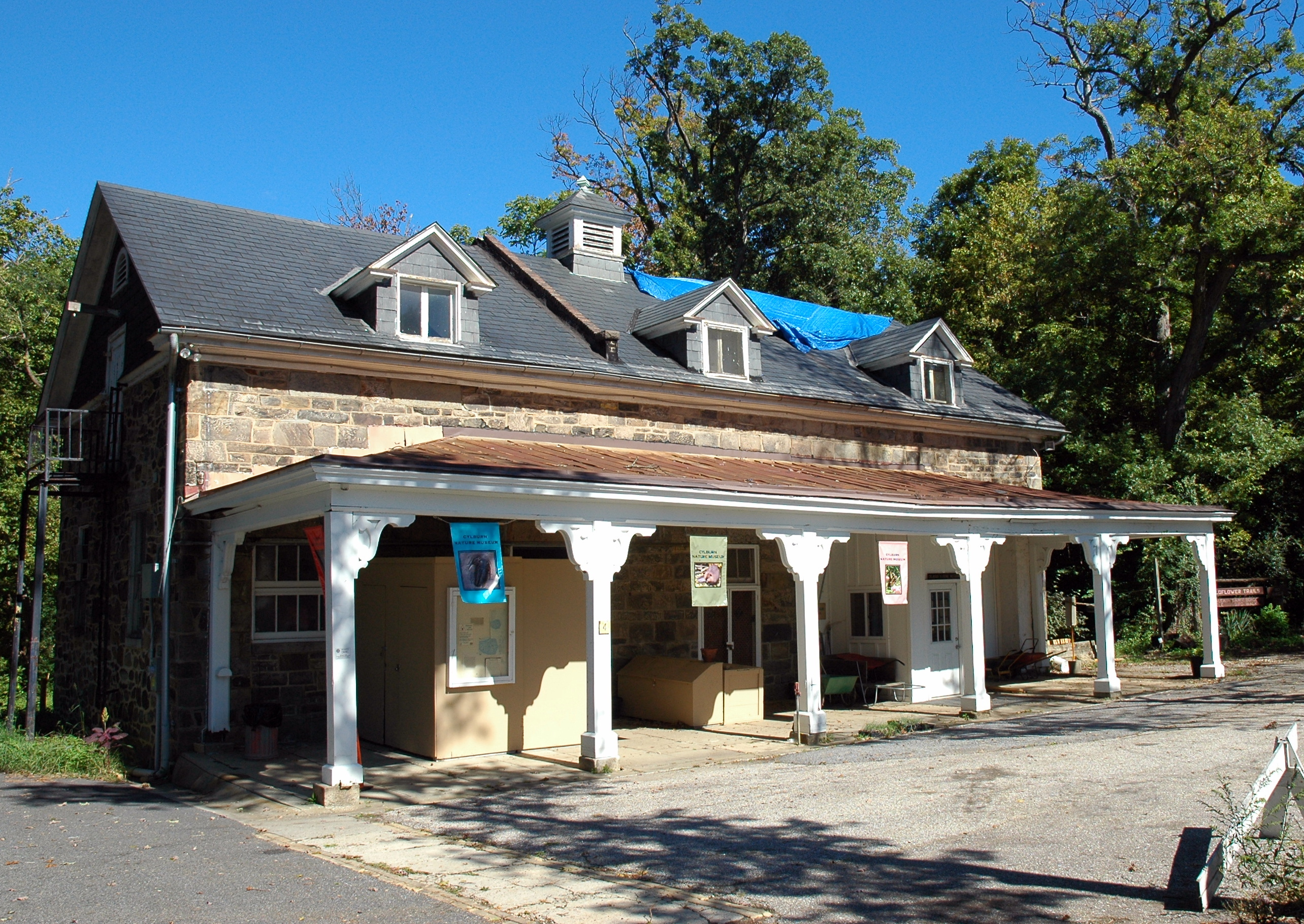 Cylburn Carriage House and Nature Museum